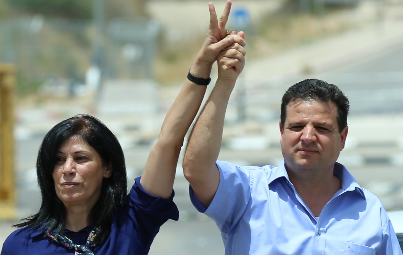 Palestinian parliament member Khalida Jarrar with MK Ayman Odeh Head of the Joint List after the Israeli authorities released her